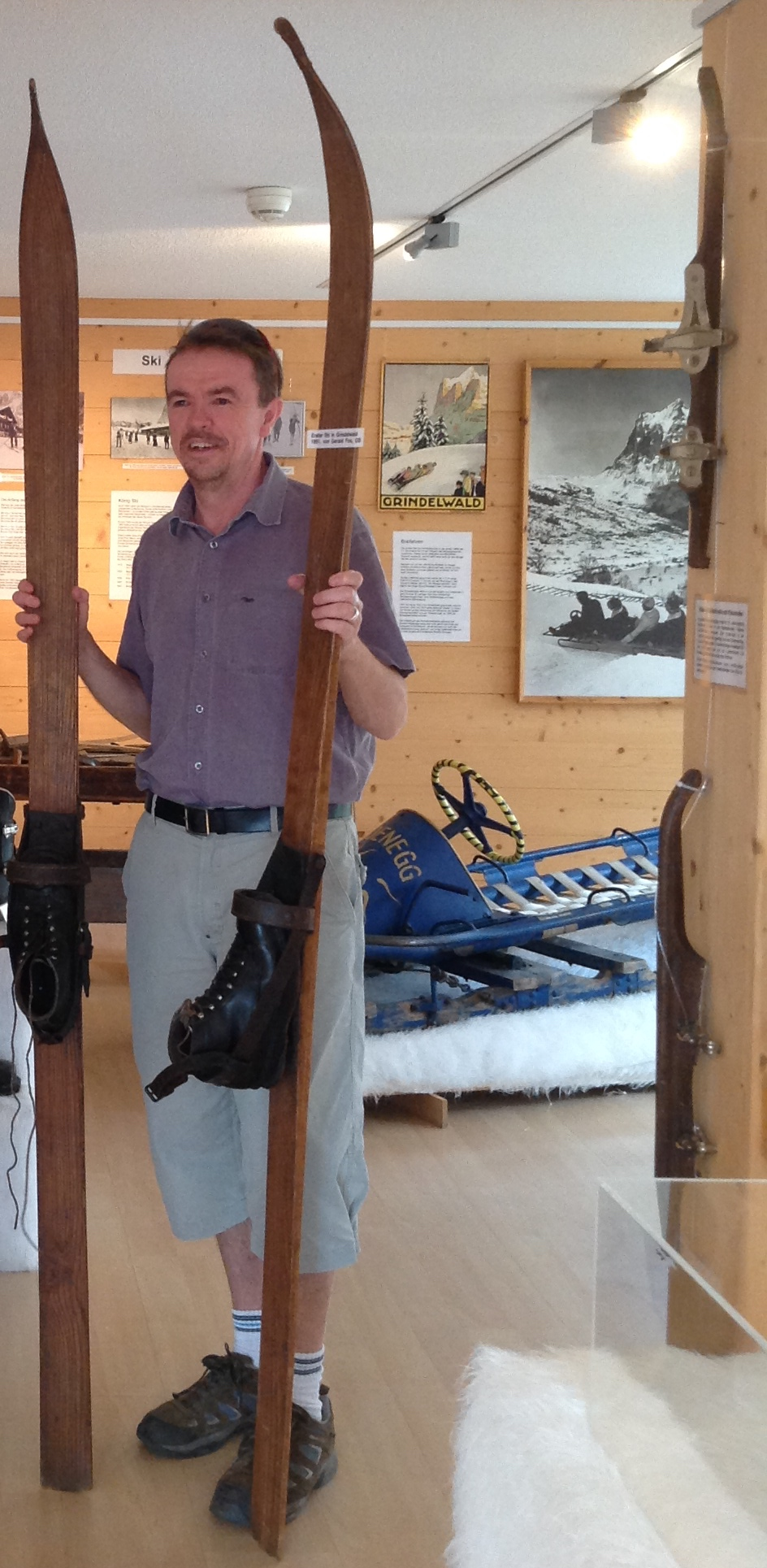 Ben Fox (from Tone Dale House) with the orginal Gerald Fox skis from 1881 (Grindelwald, Switzerland - August 4th 2014)